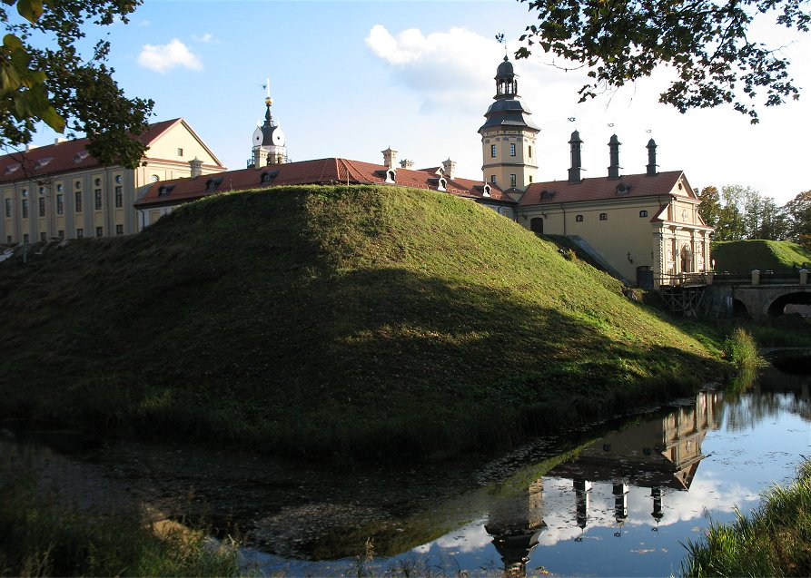 View of Nesvizh (Nesviž) castle (Нясьві́ж, Несвиж, Nesvyžius, Nieśwież) in Minsk region, Belarus.